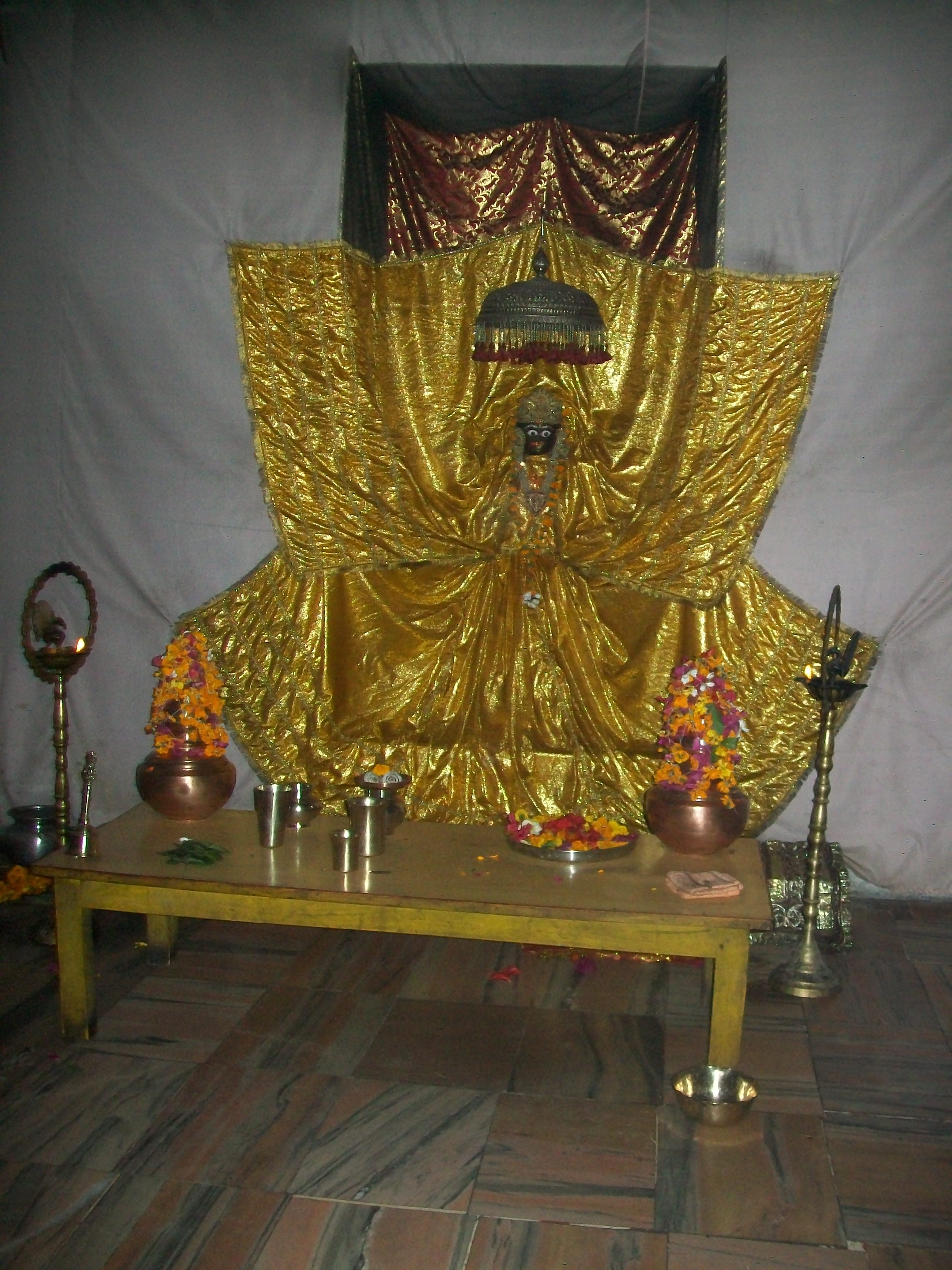 This is picture of Maa Kamakshi Devi